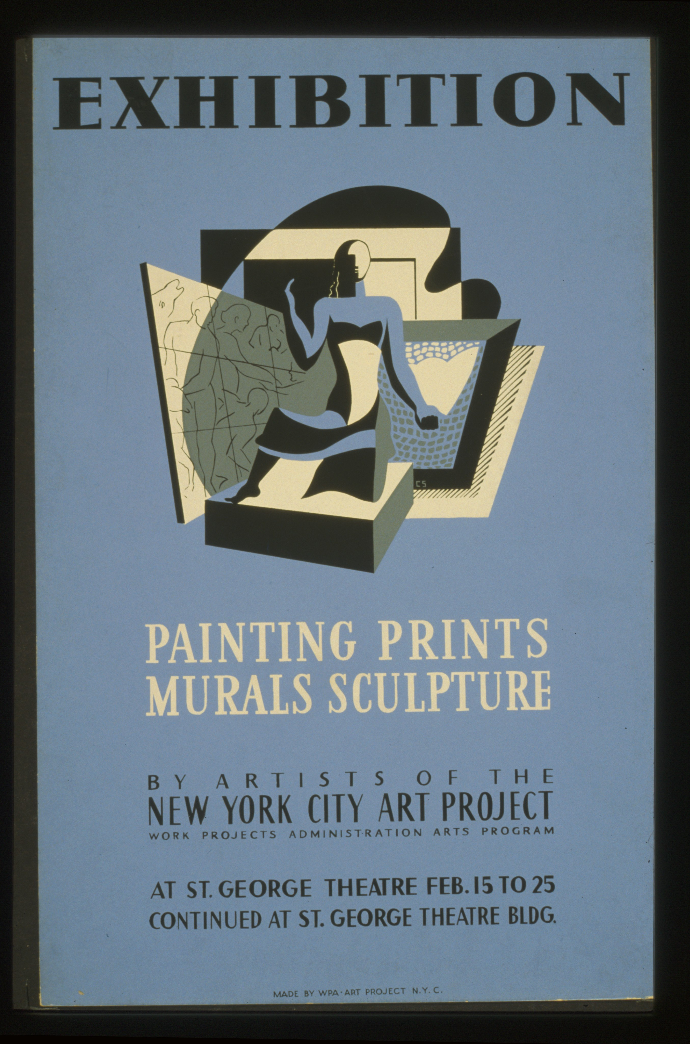 Title: Exhibition Abstract: Poster for exhibition of art by New York City Art Project artists from the Work Projects Administration Arts Program, at St. George Theatre, New York City. Physical description: 1 print on board (poster) : silkscreen, color. Notes: C.S.; Work Projects Administration Poster Collection (Library of Congress).; Date stamped on verso: Mar 24 1941.